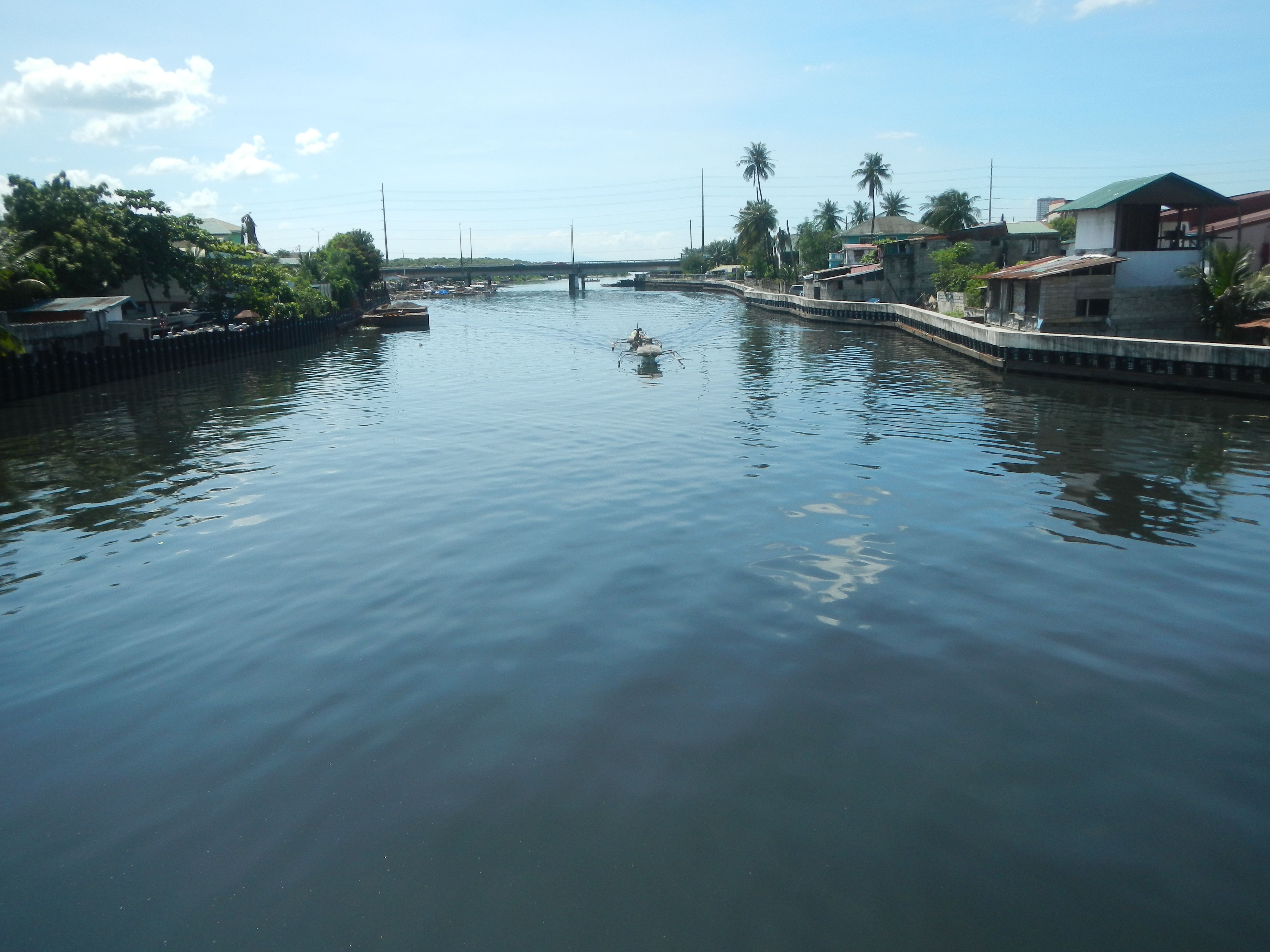 Elpidio Quirino Avenue (Tambo, Don Galo, La Huerta and San Dionisio, Parañaque City section) Don Galo-La Huerta Bridge & Parañaque River Parañaque River La Huerta National High School (Elpidio Quirino Avenue, Parañaque City) Don Galo, Parañaque City Parañaque Ultrasound and Diagnostic Center (Elpidio Quirino Avenue, Don Galo, Parañaque City) Manuel Hernandez Bernabe La Huerta, Parañaque, Parañaque Legislative districts of Parañaque 1st District, Districts and barangays, Barangay La Huerta 14°29'50"N 120°59'43"E beside Don Galo 14°30'26"N 120°59'4"E Tambo 14°30'59"N 120°59'20"E San Dionisio 14°29'2"N 120°59'33"E Baclaran, Parañaque City along Elpidio Quirino Avenue Don Galo-La Huerta Bridge, Parañaque City Sta. 9+766-Sta.9+841 Load limit 20 metric tons upon Parañaque River from and to Roxas Boulevard, Radial Road 2 from Baclaran LRT station (Note: Judge Florentino Floro, the owner, to repeat, Donor Florentino Floro of all these photos hereby donate gratuitously, freely and unconditionally Judge Floro all these photos to and for Wikimedia Commons, exclusively, for public use of the public domain, and again without any condition whatsoever).